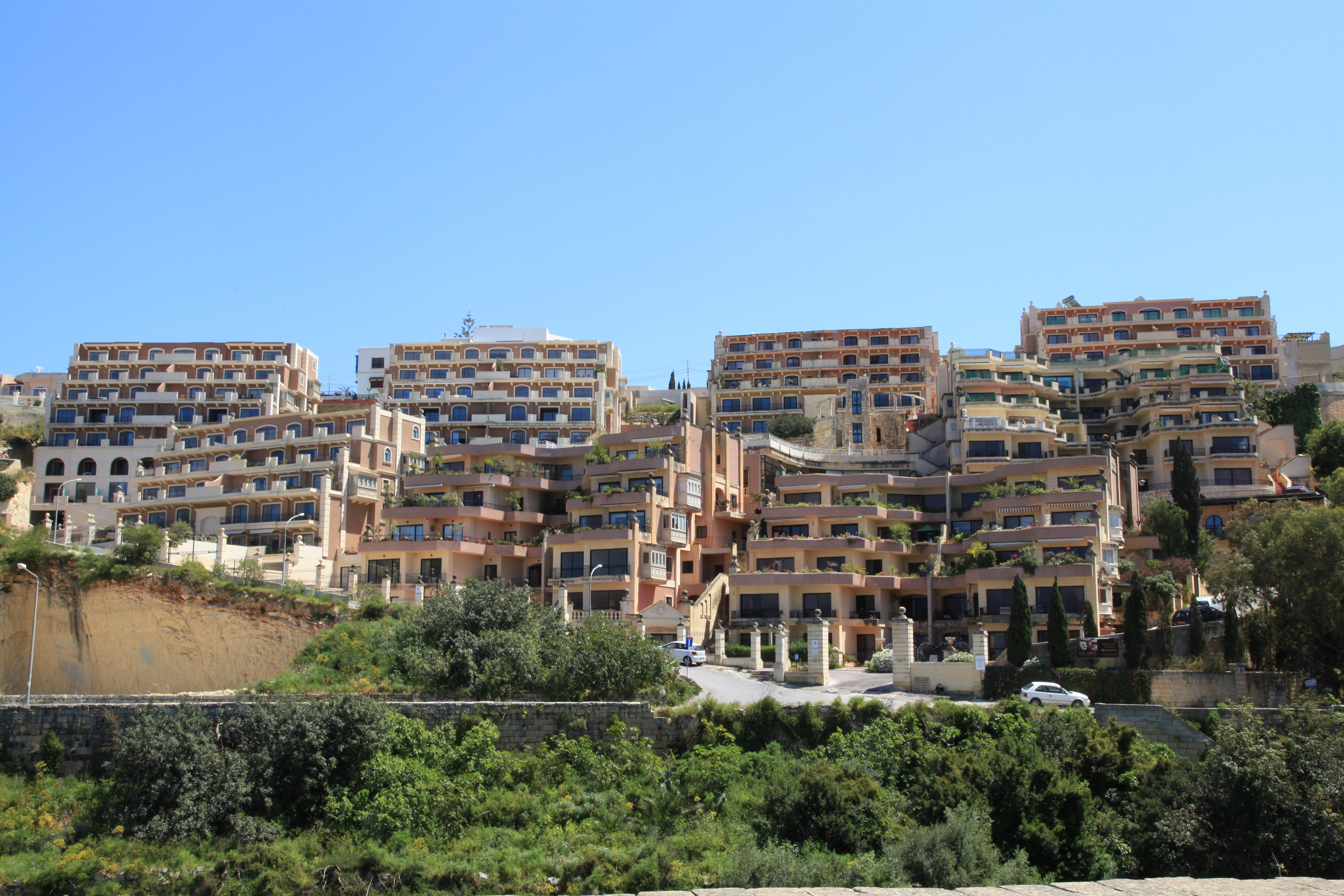 Triq il-Fortizza and Triq il-Madliena in Swieqi, Malta